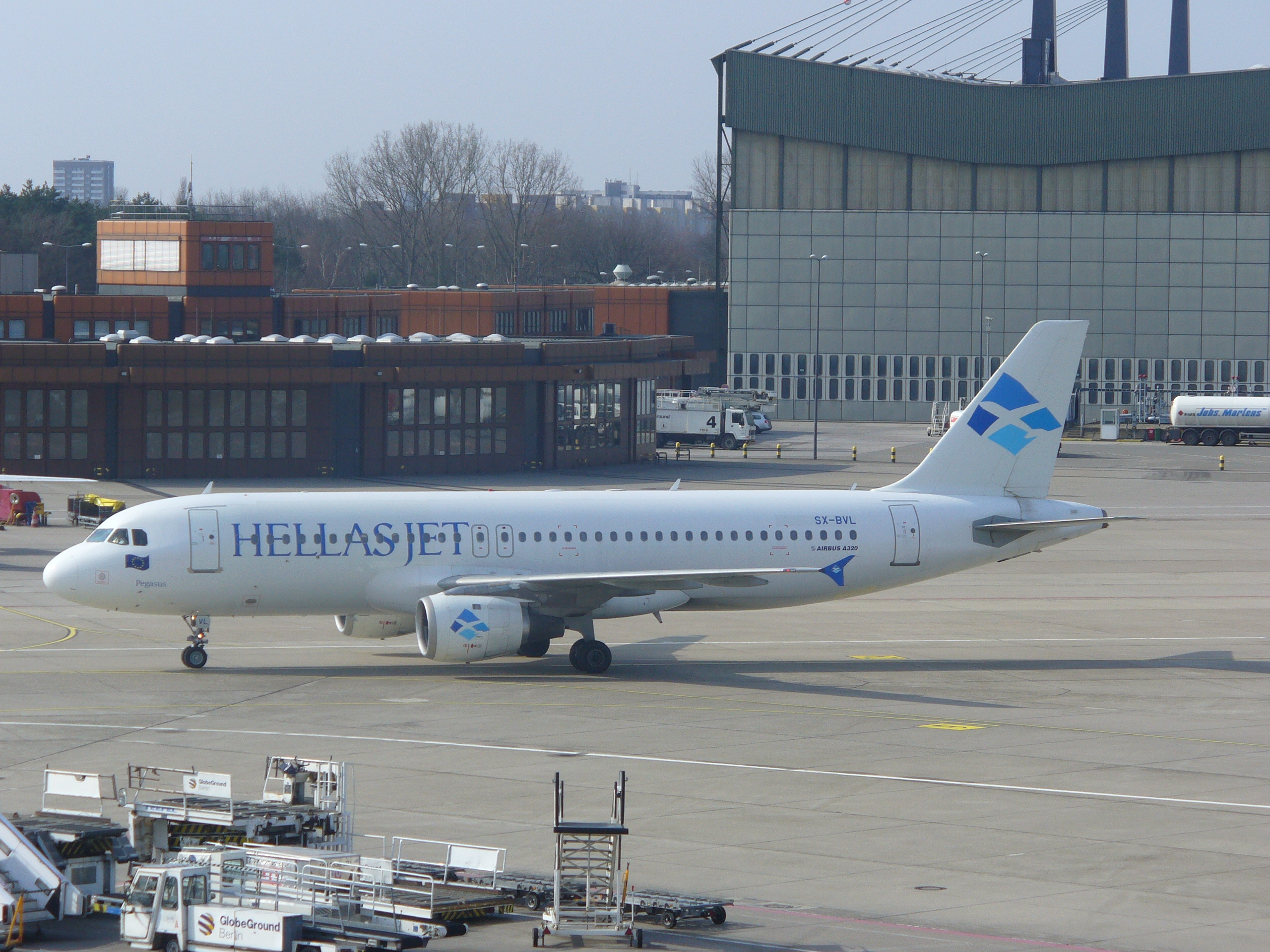 Hellas Jet Airbus A320 SX-BVL at Berlin-Tegel Airport